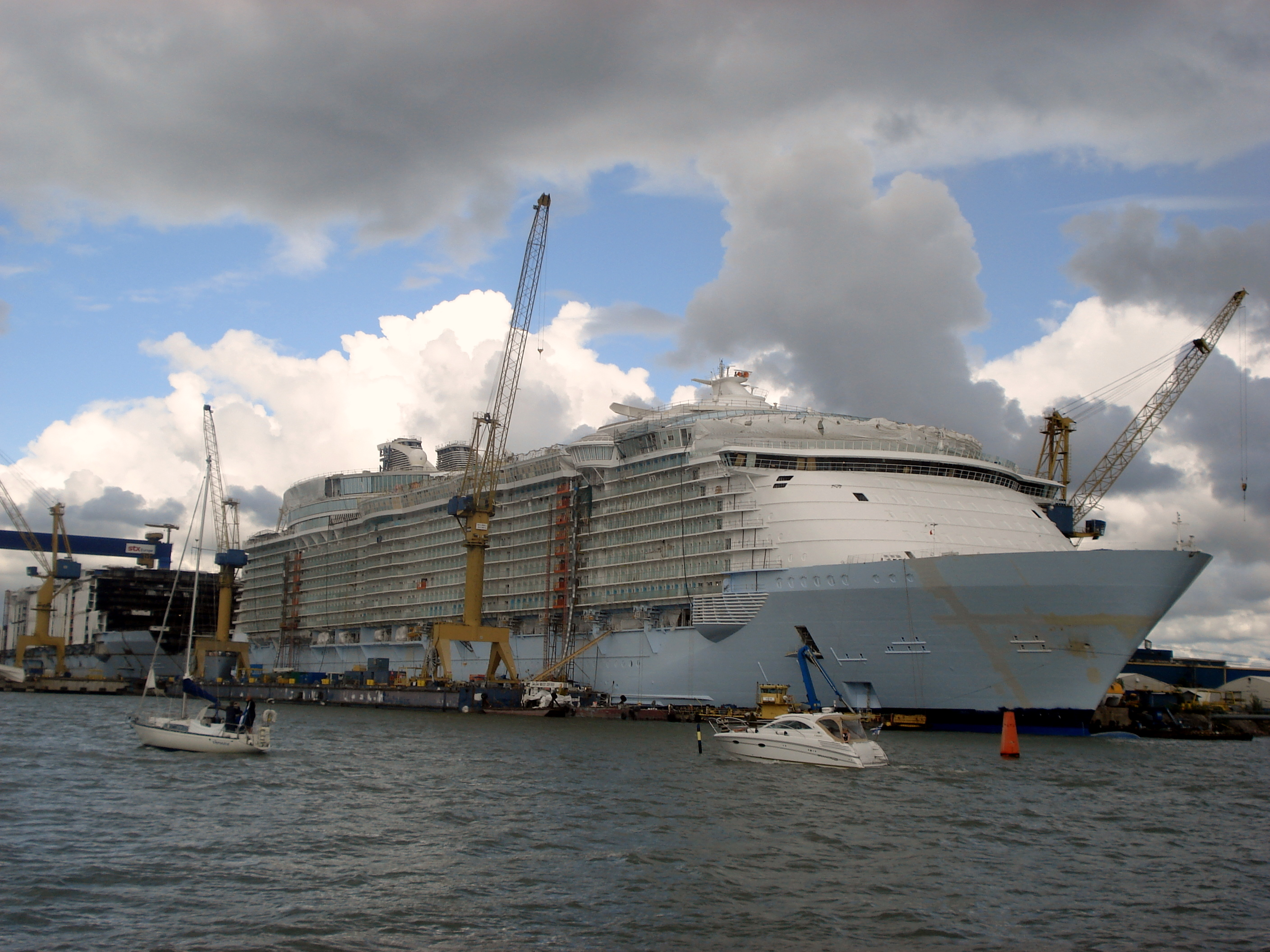 MS Oasis of the Seas under construction at STX Finland Cruise Oy Shipyard, Turku, Finland. In the background is the MS Allure of the Seas.